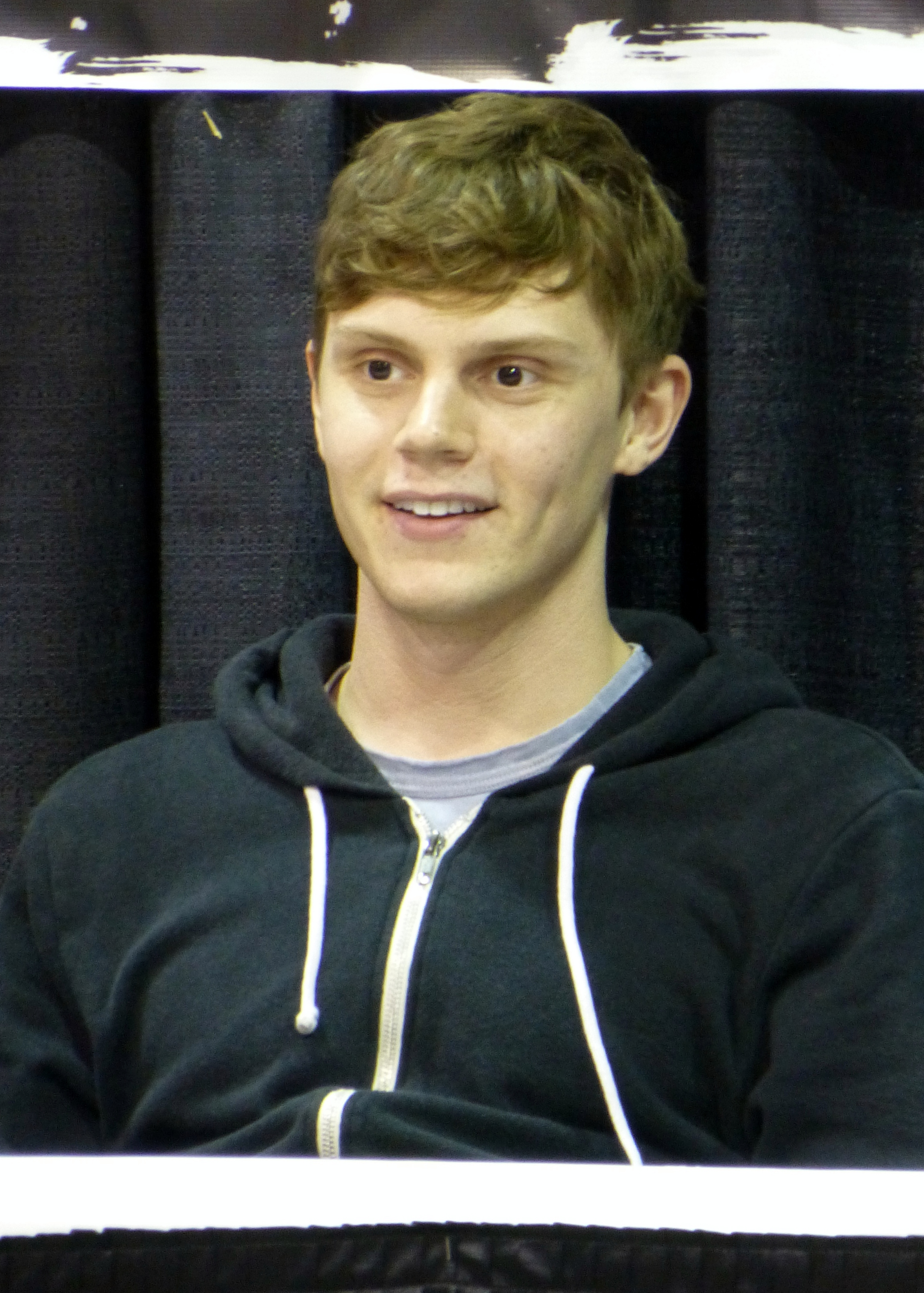 Evan Peters at the 2014 Wizard Con